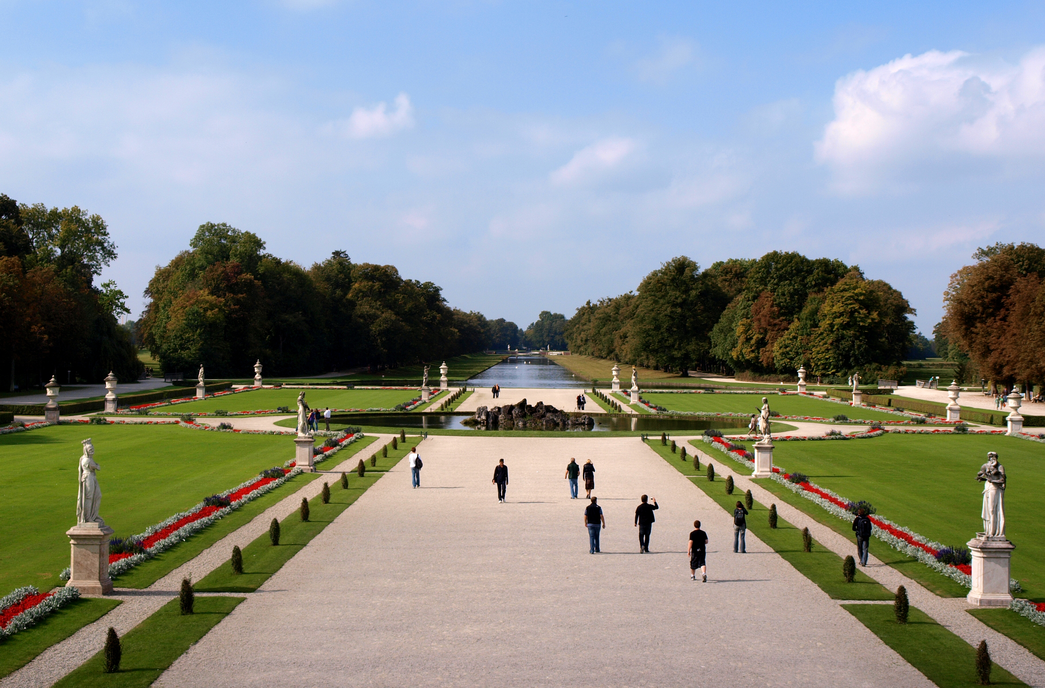 Gardens of Nymphenburg Palace